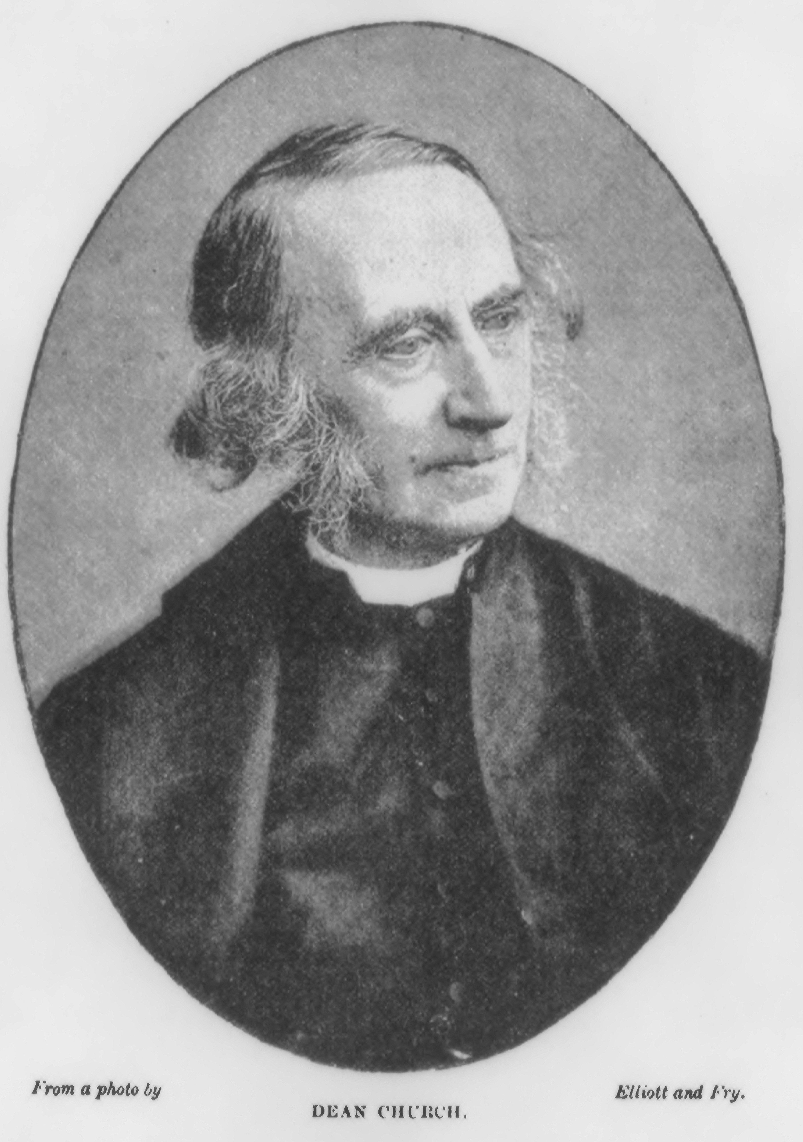 Richard William Church (25 April 1815 – 6 December 1890) was an English churchman and writer.